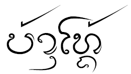 Lanna – Ban Hong is a district (amphoe) of Lamphun Province